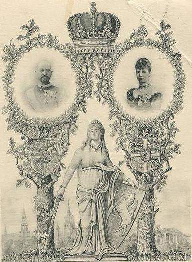 The Duke and Duchess of Cumberland in 1903